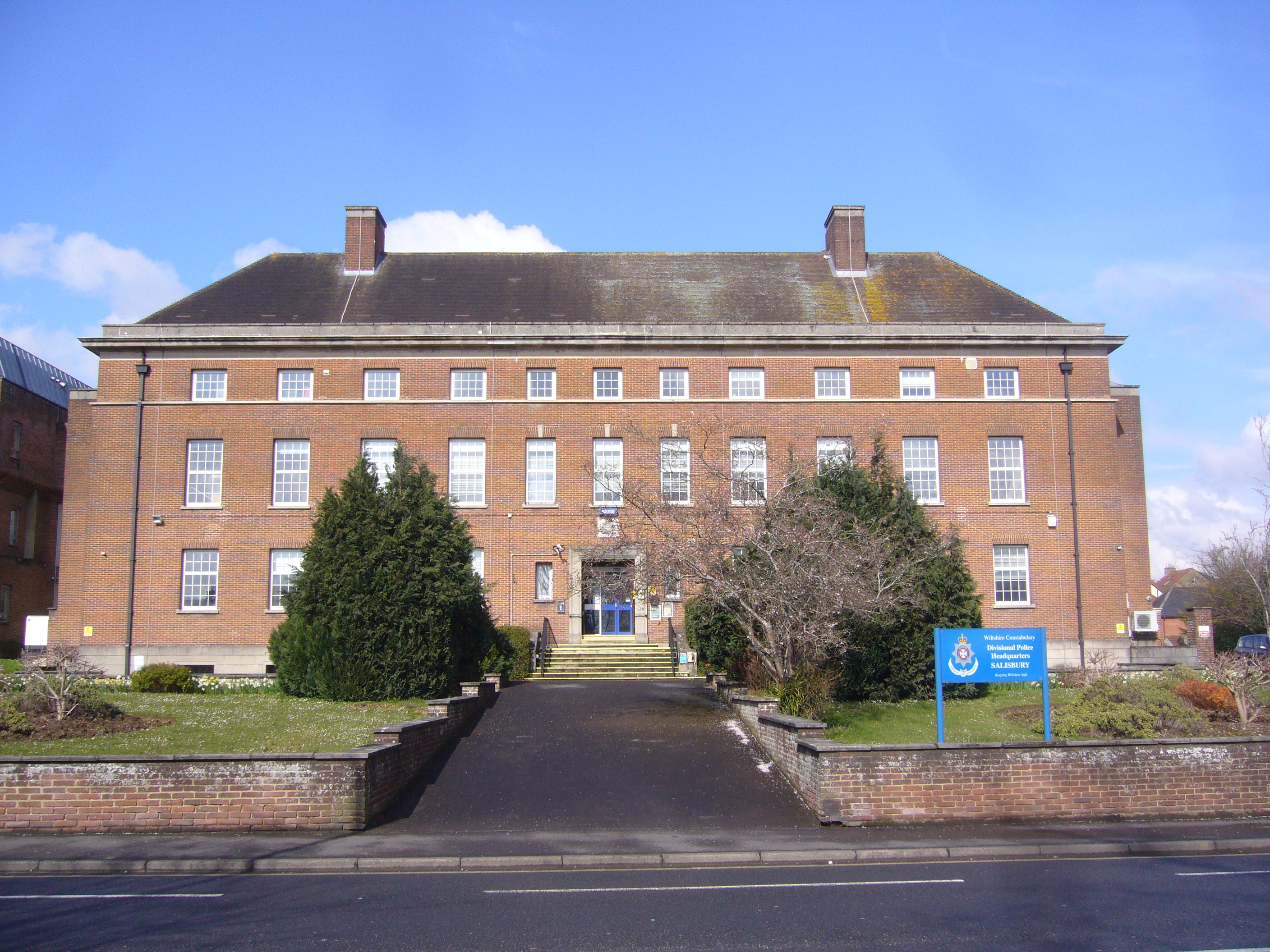 Salisbury, Wiltshire. Police Station. March 2014. From Sept 2015 Salisbury Technical University, The Police station is now sited at Bourne Hill Council House.